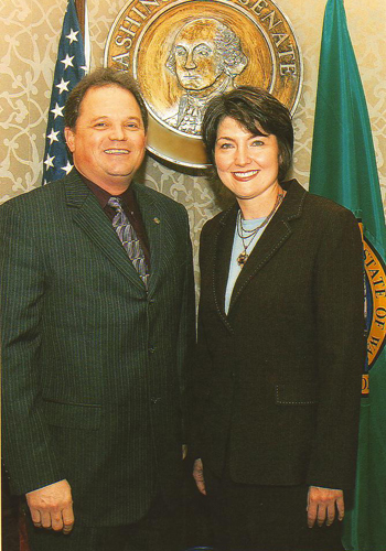 Cathy McMorris Rodgers with State Senator Jerome Delvin